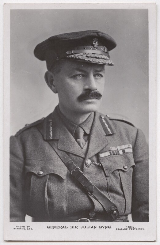 Portrait of Lord Byng